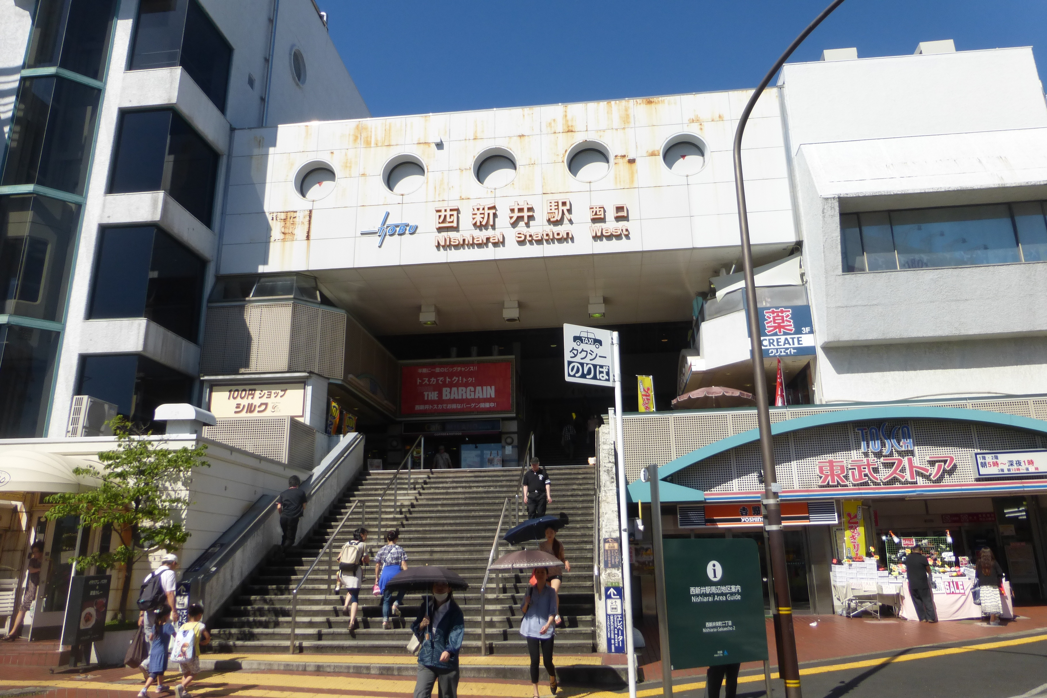 Nishiarai Station west exit